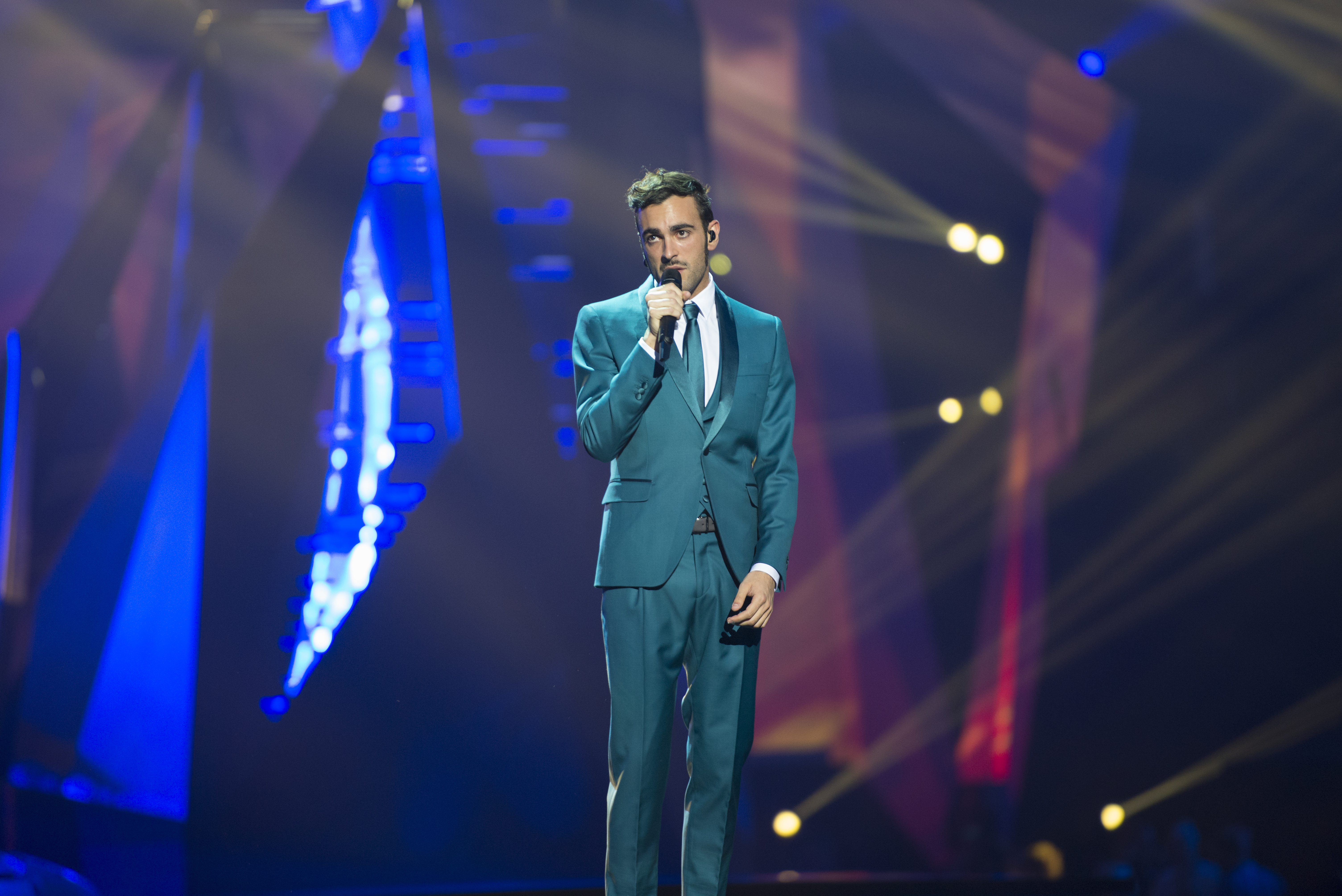 Marco Mengoni representing Italy with the song "L'essenziale" during the first dress rehearsal of the final of the Eurovision Song Contest 2013 in Malmö. (Help translate this text)